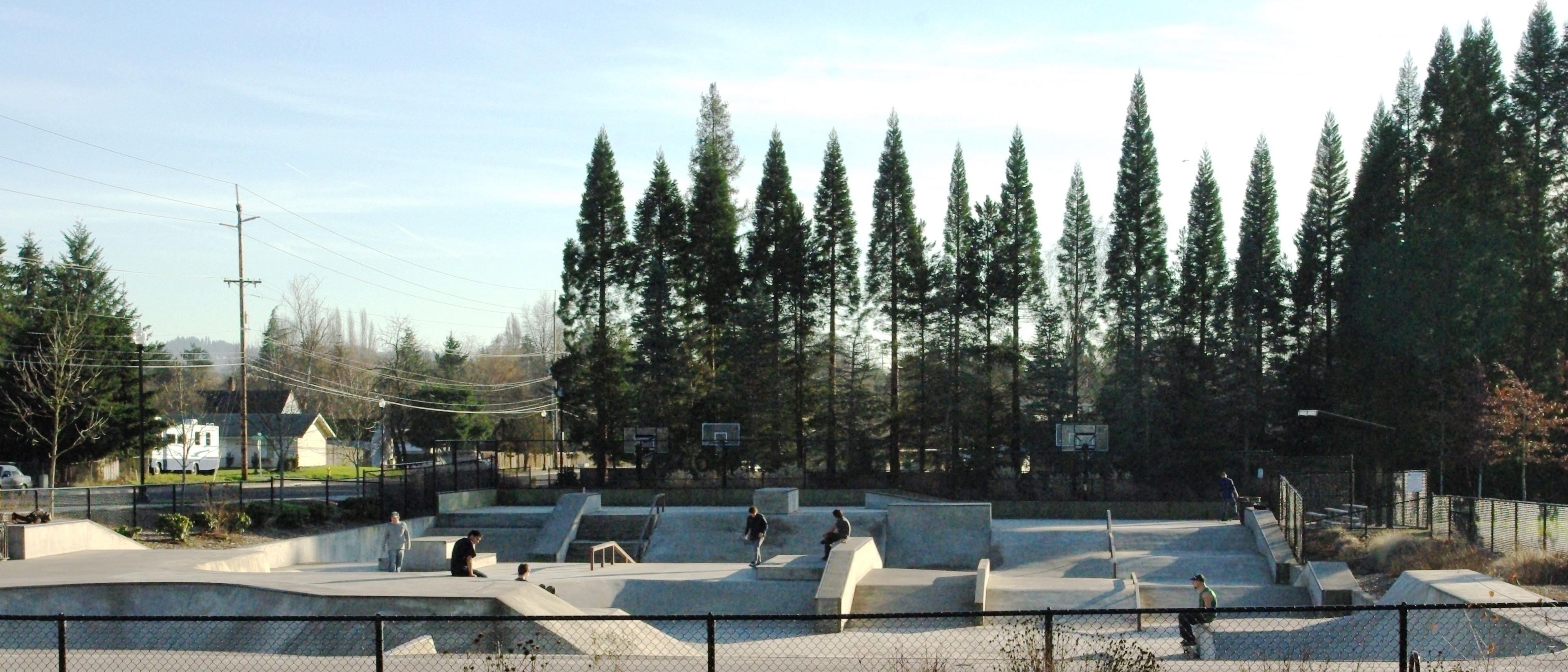 Reedville Creek Park in Hillsboro, Oregon